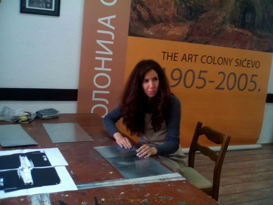 Višnja Nikolić, Novi Sad, Srbija, kao učesnik Grafičke radionice u Sićevu, kod Niša, maj 2015